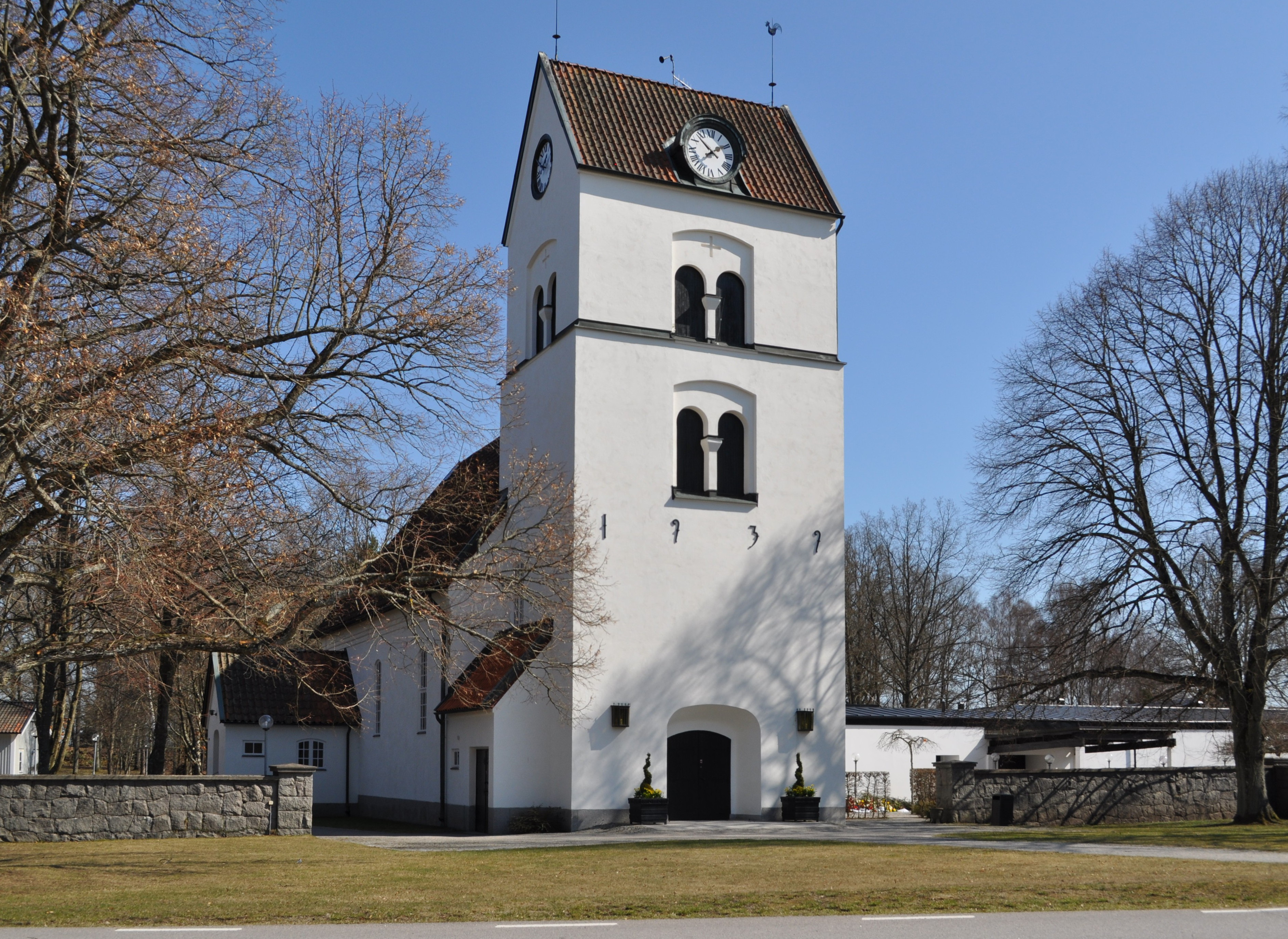 Bredåkra kyrka - Ronneby församling - Lunds stift